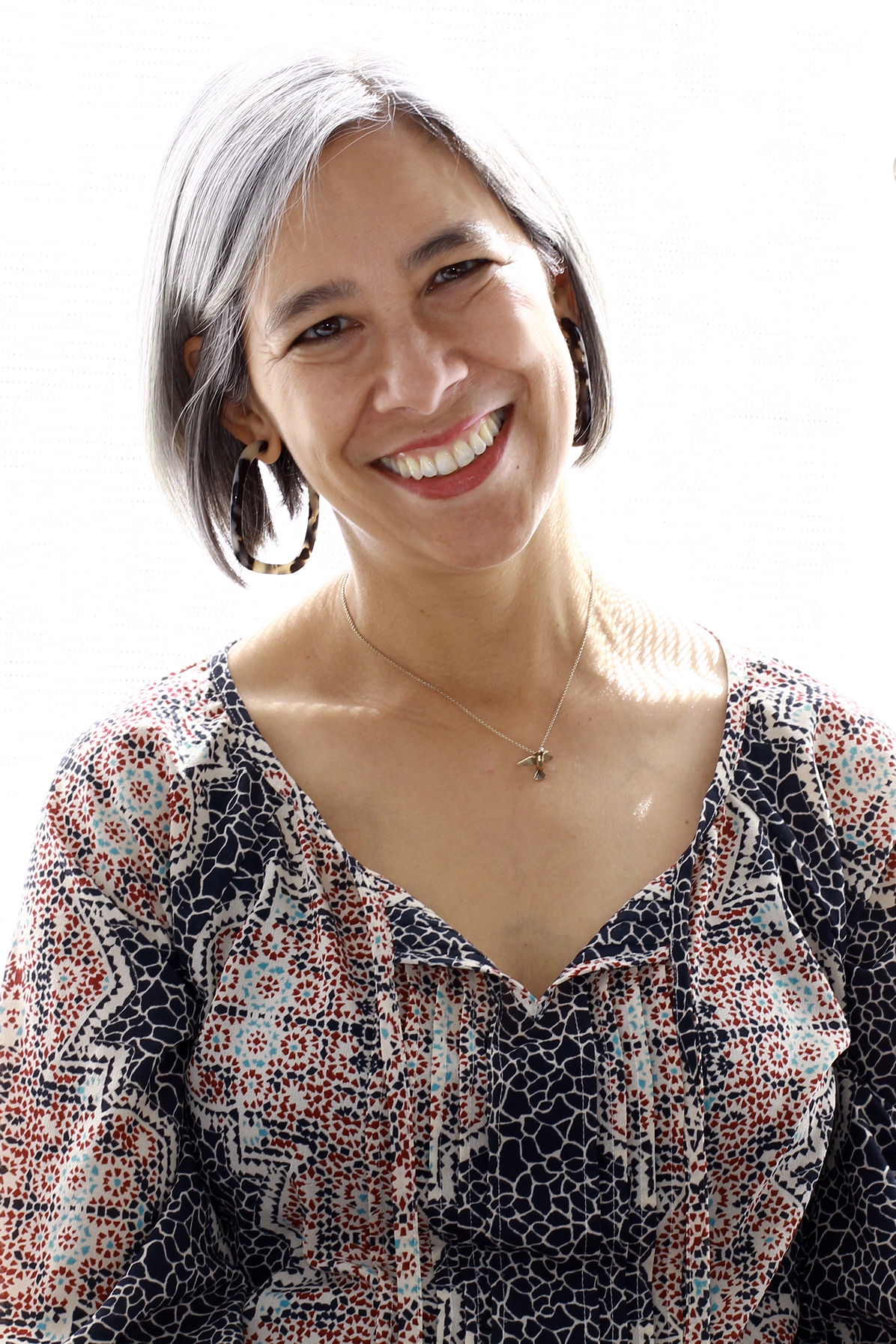 Author Susan Choi at the 2019 Texas Book Festival in Austin, Texas, United States